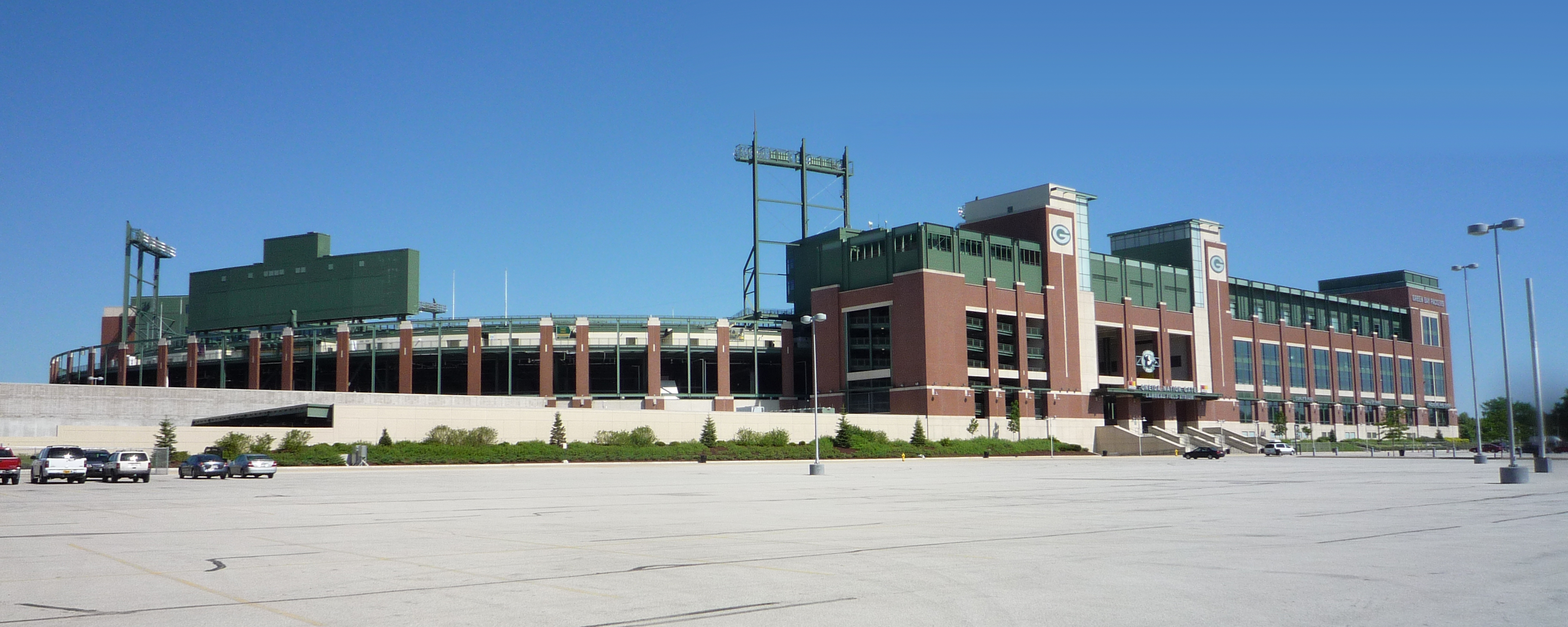 Lambeau Field, Green Bay, Wisconsin, USA.